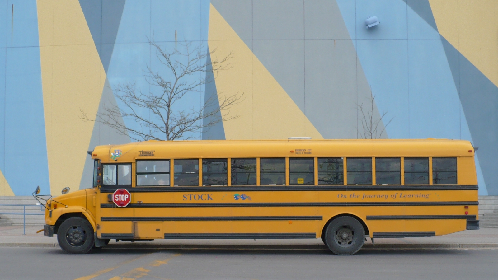 Stock Transportation school bus